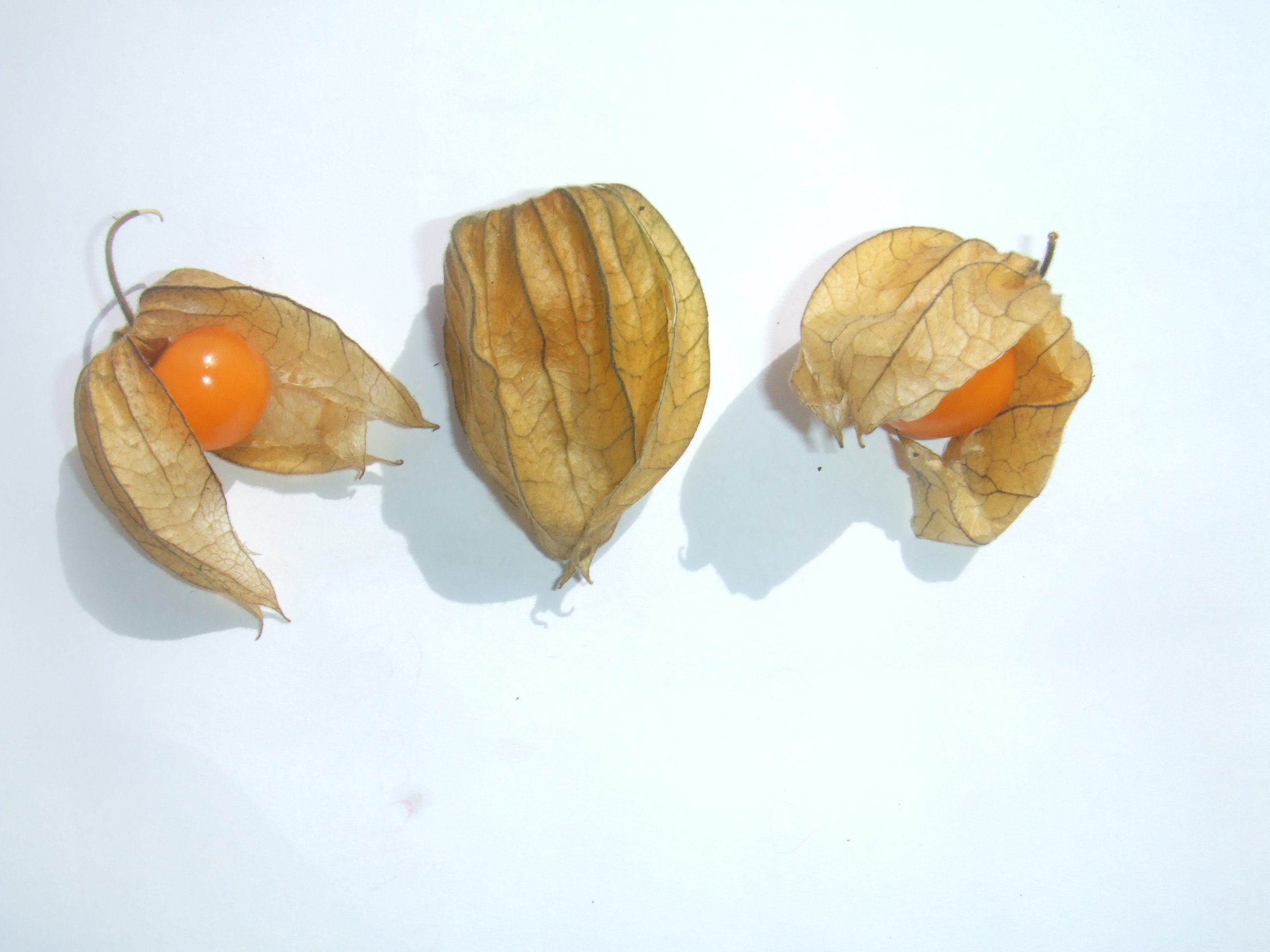 Physalis peruviana from Colombia, bought at the Binnenrotte market in Rotterdam, The Netherlands